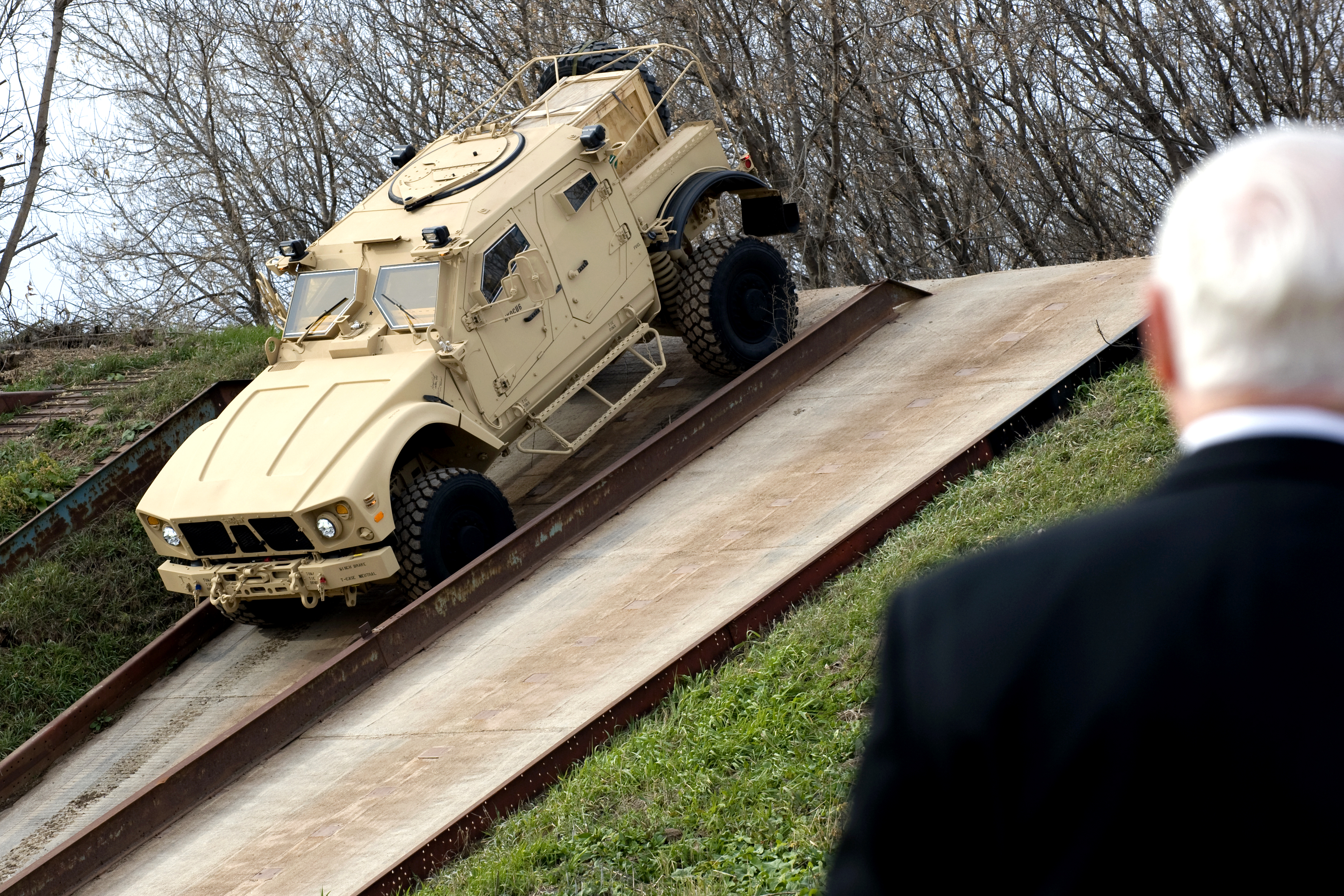 Defense Secretary Robert M. Gates watches a demonstration of the M-ATV at the production plant's test site, Oshkosh, Wis., Nov. 12, 2009. DoD photo by Cherie Cullen